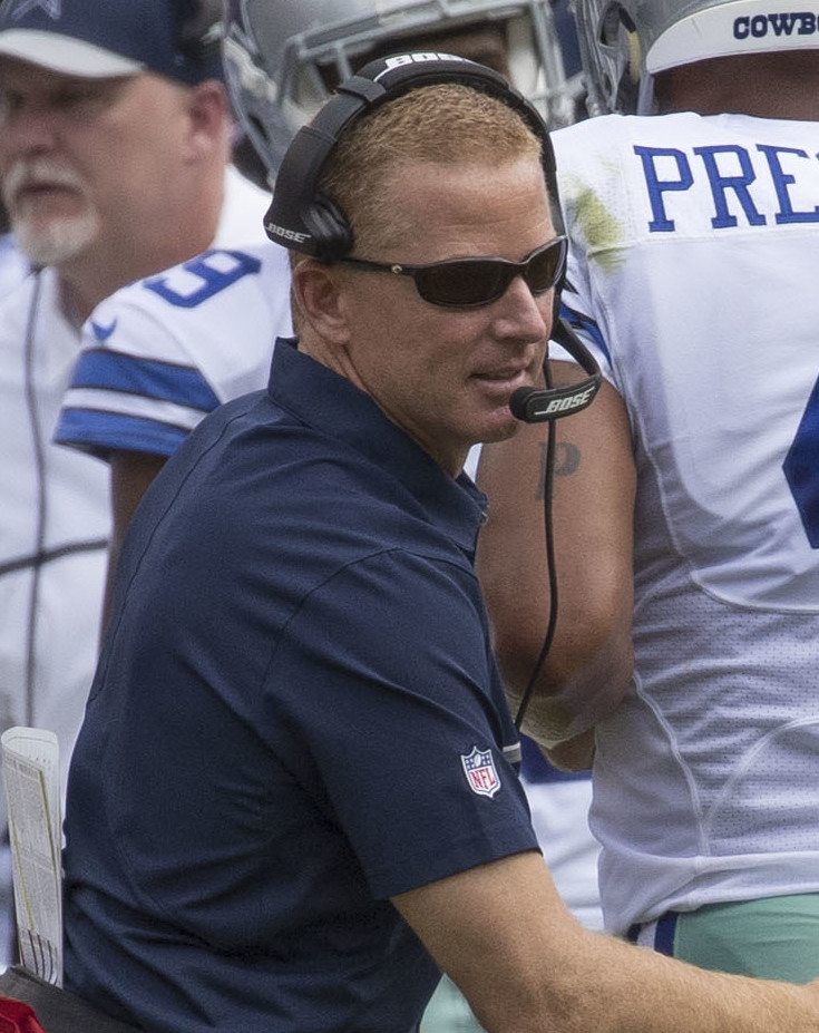 Jason Garrett and Dak Prescott at the Redskins, 2016